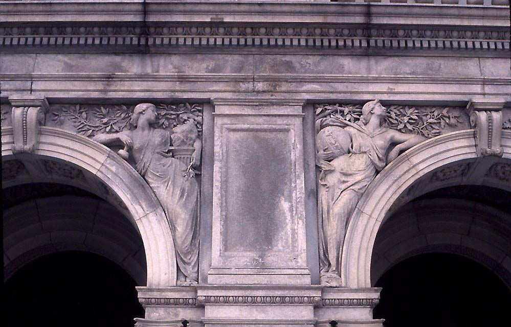 spandrel figures, Art and Science by Bela Pratt on the Library of Congress building Washington DC USA